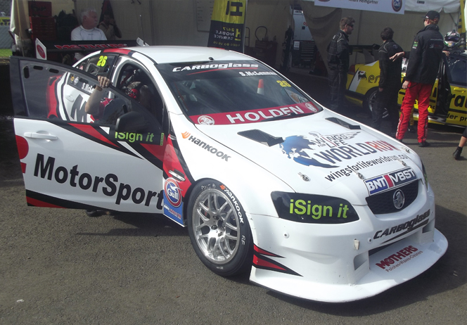 Simon McLennon's 2014 M2 Motorsport Commodore